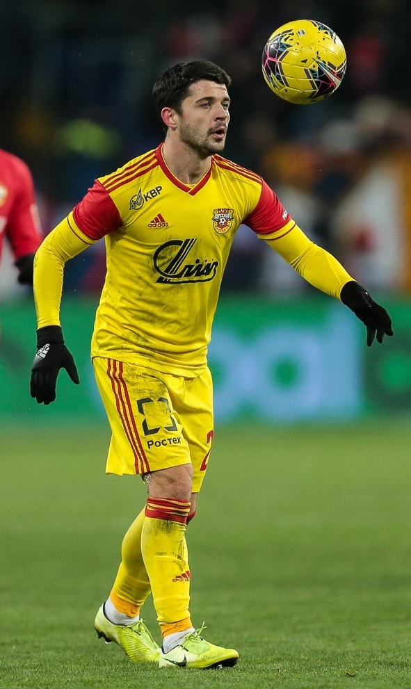 Igor Gorbatenko with FC Arsenal Tula in a game against PFC CSKA Moscow.